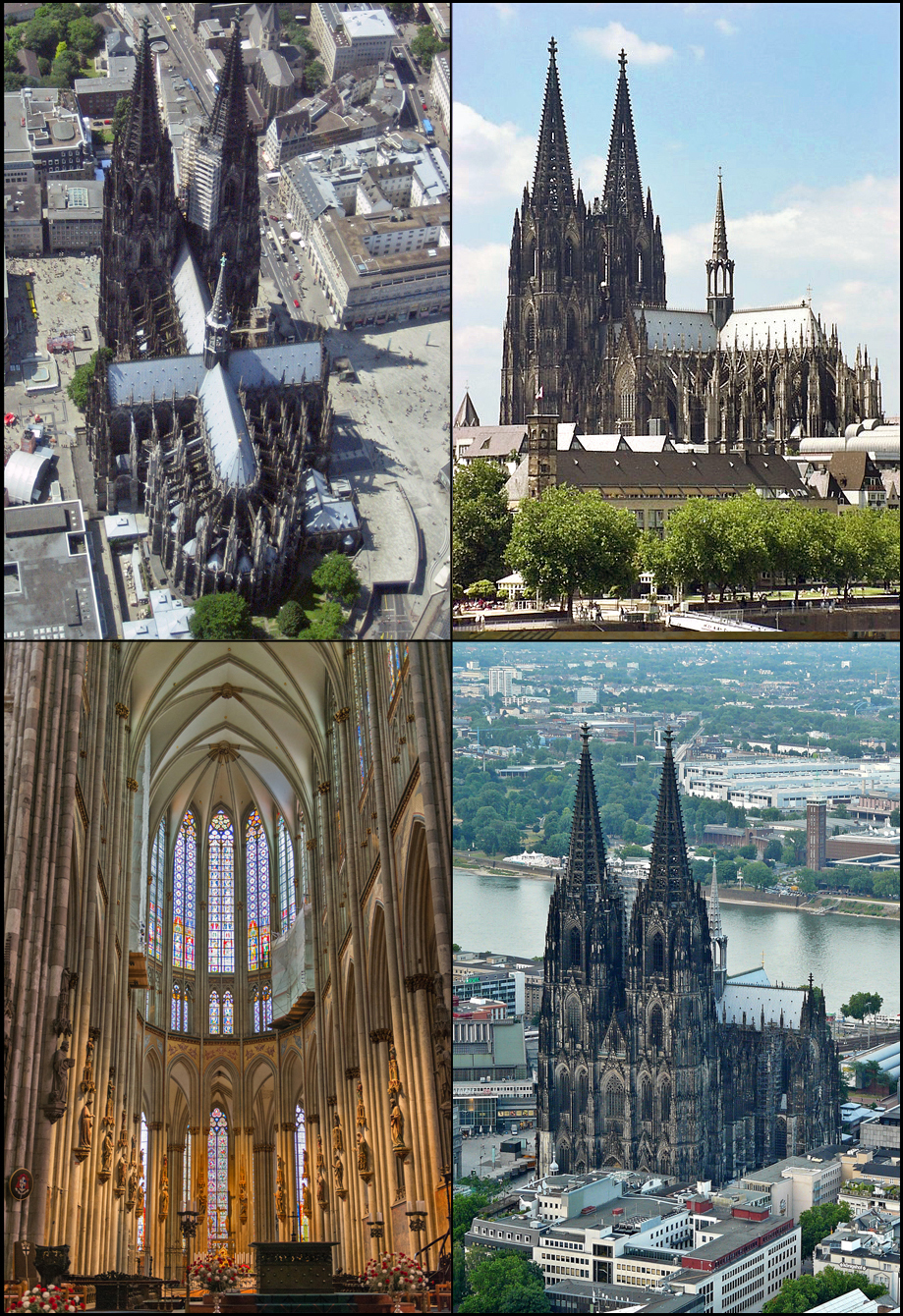 Cologne Cathedral, Rayonnant Gothic (1248-1880), Cologne, Germany